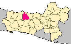 Pekalongan county in Central Java province, Indonesia